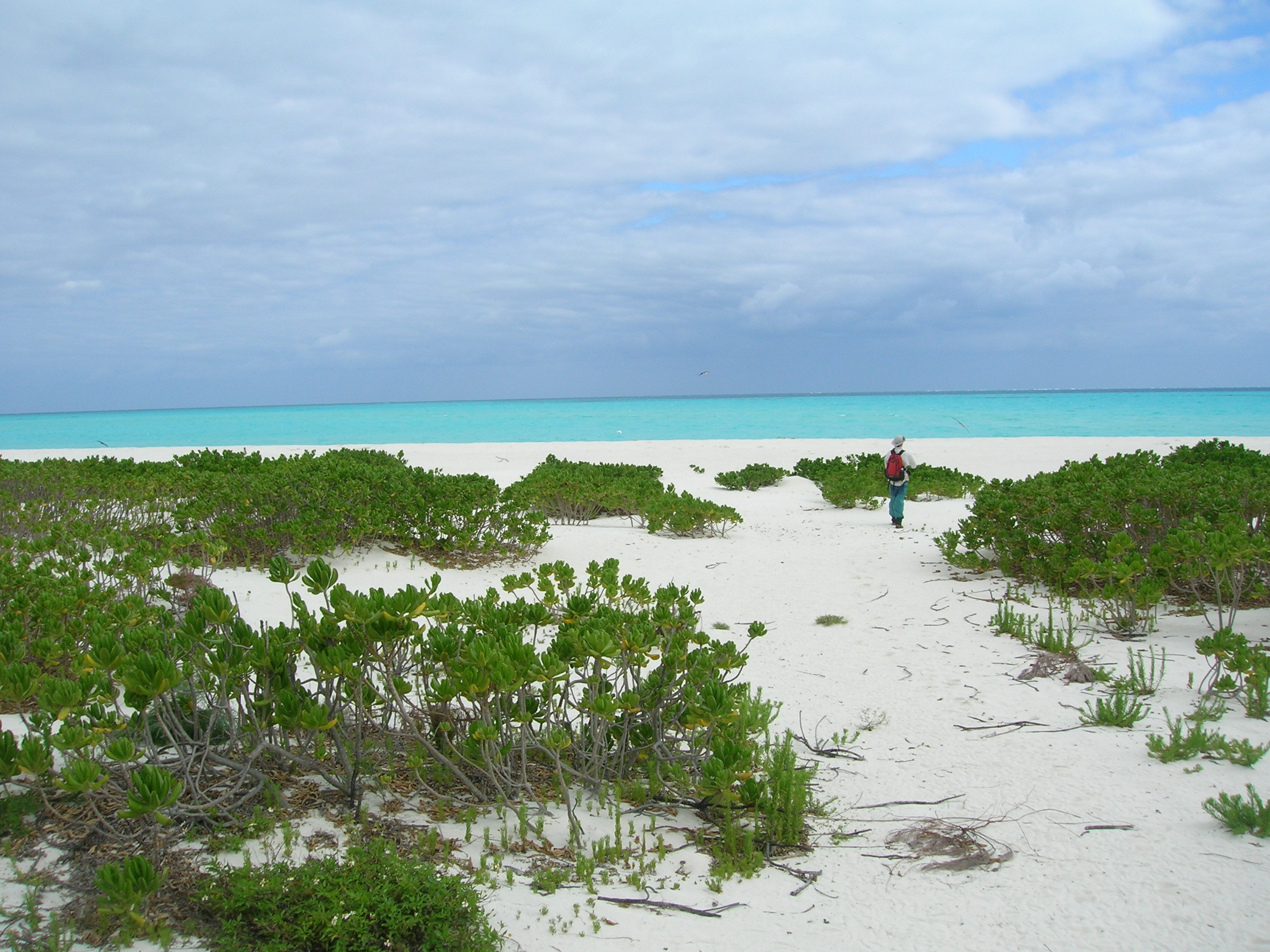 Scaevola taccada (habit with Forest). Location: Midway Atoll, North Beach Sand Island